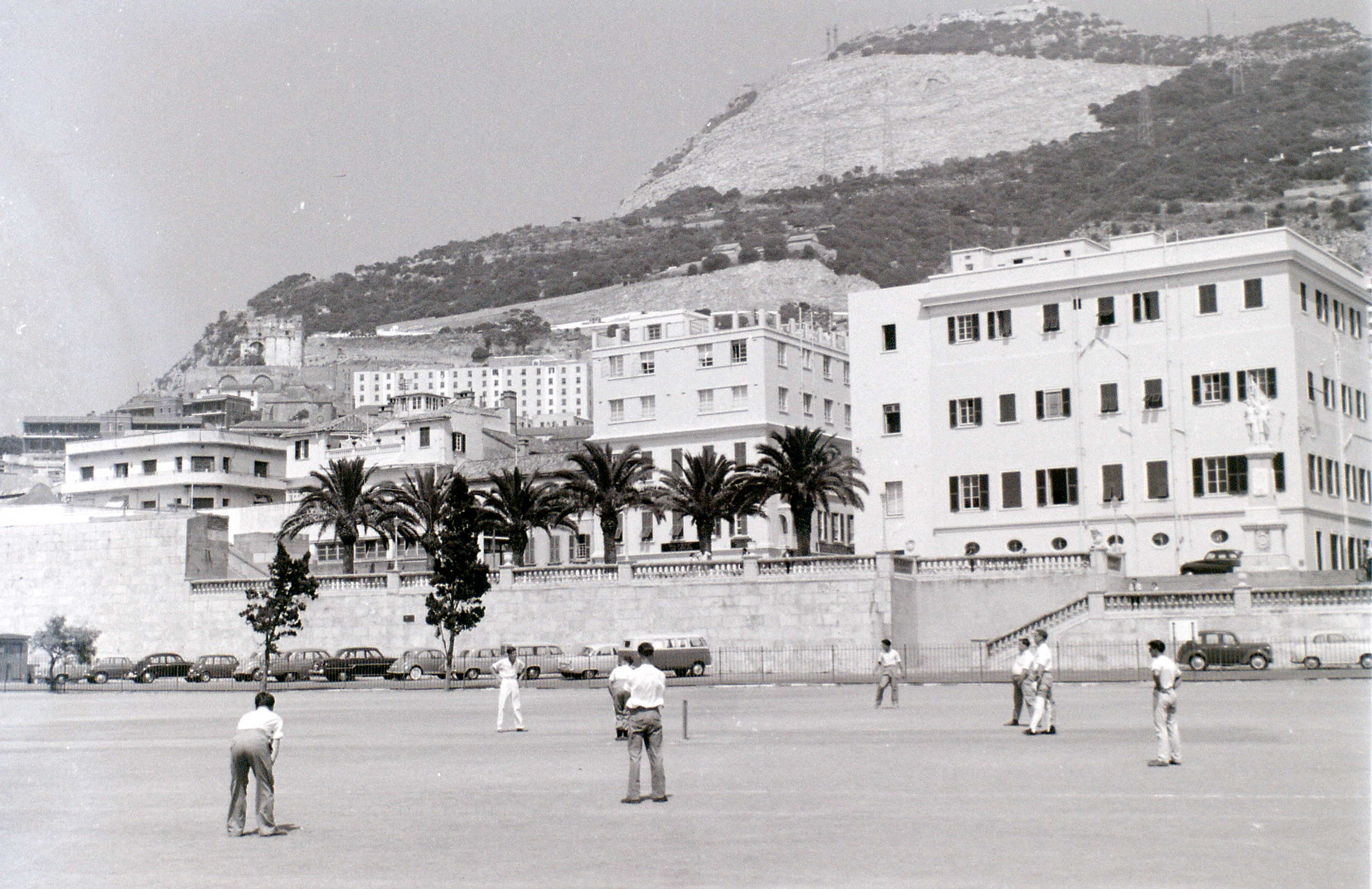 Cricket - Howzat, ... Gibraltar, c.2 July 1960. A game of cricket but in the background is Gibraltar as it was over 50 years ago. we have paintings of this area from 150 years ago so nice to see the changes.